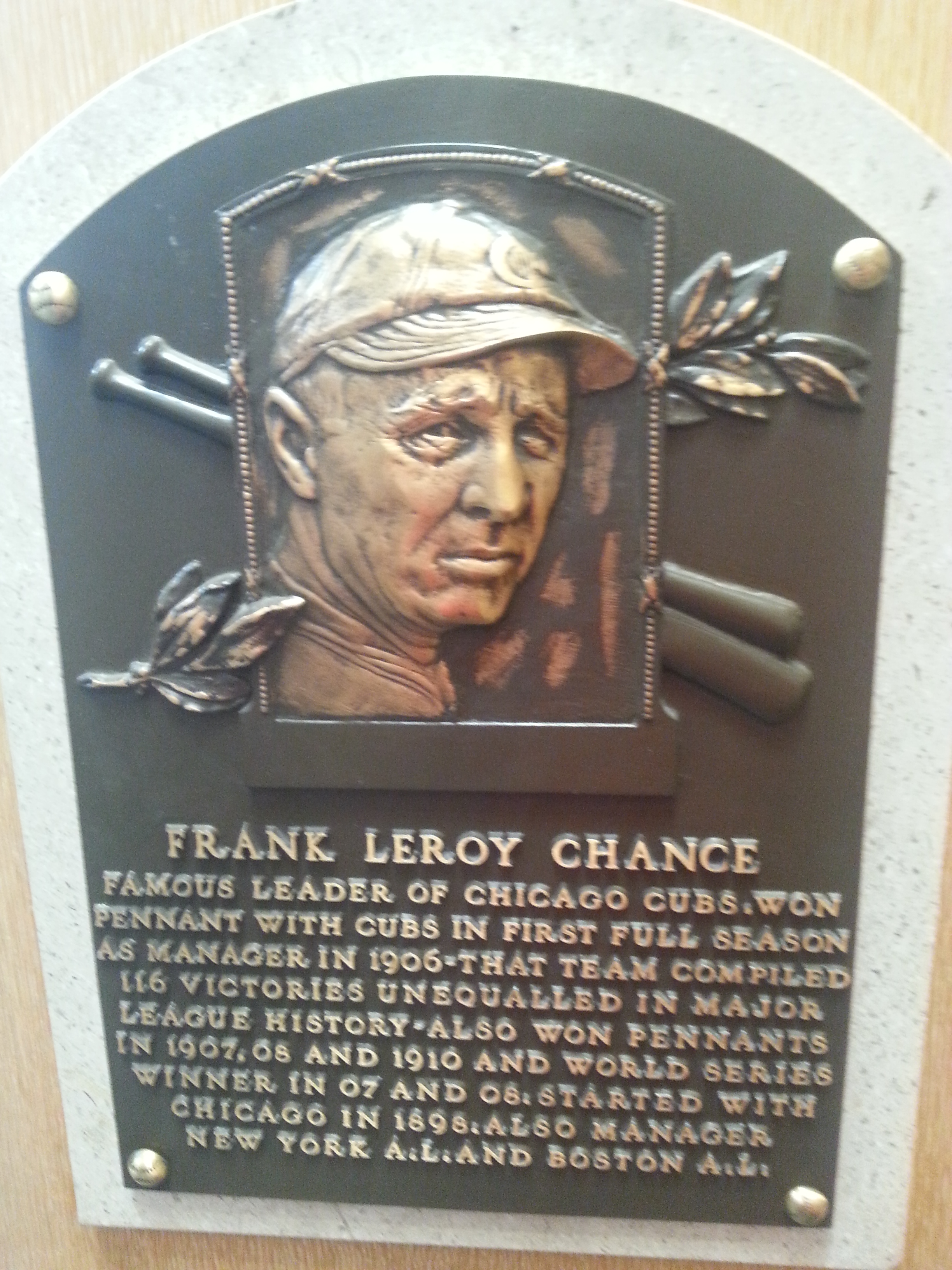 Frank Chance plaque in the National Baseball Hall of Fame